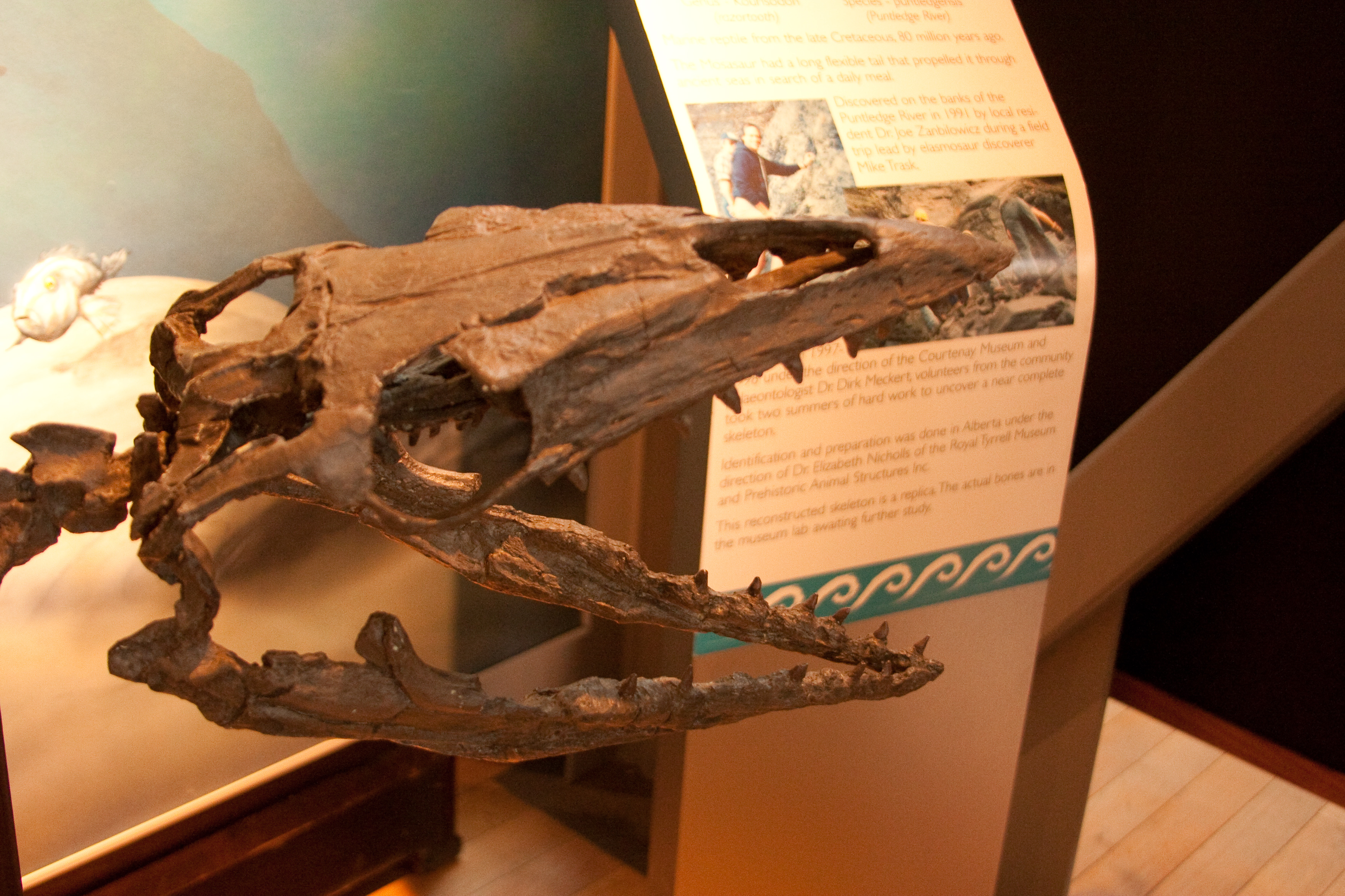 Dinos at Courtenay Museum -20090628-7